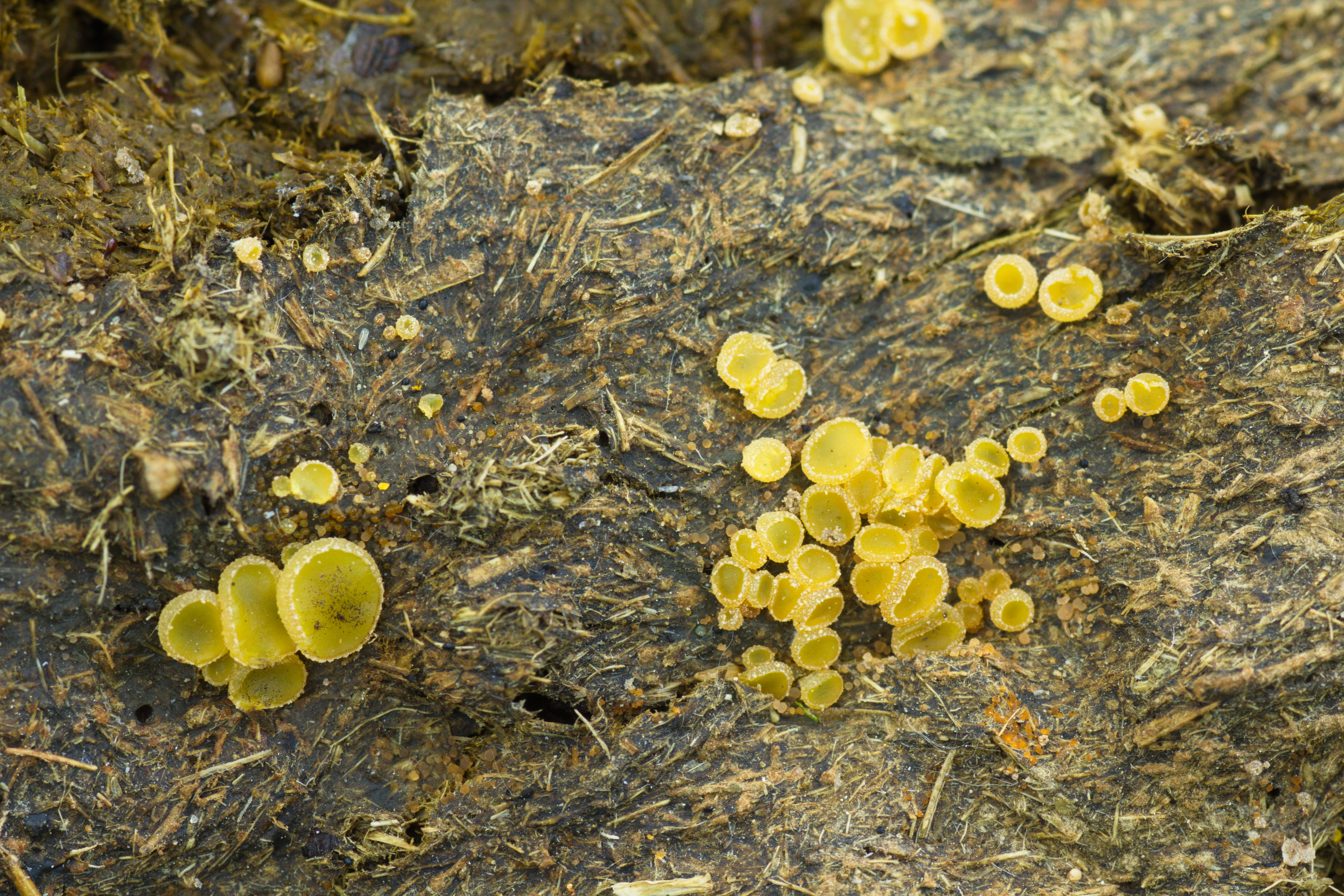 Fruit bodies of an unidentified Ascobolus species growing on cow dung. Photographed near Staryi Iskitim, Iskitim district, Novosibirsk region, Russia.